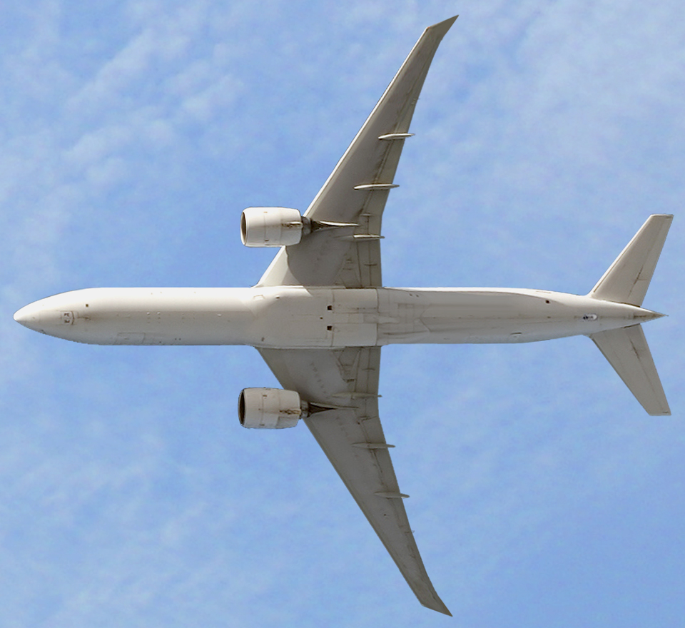 Planform view of a Boeing 777-300ER, composite photo